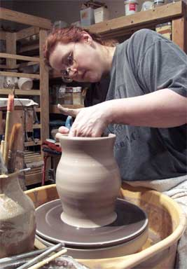 Potter at work on potter's wheel.